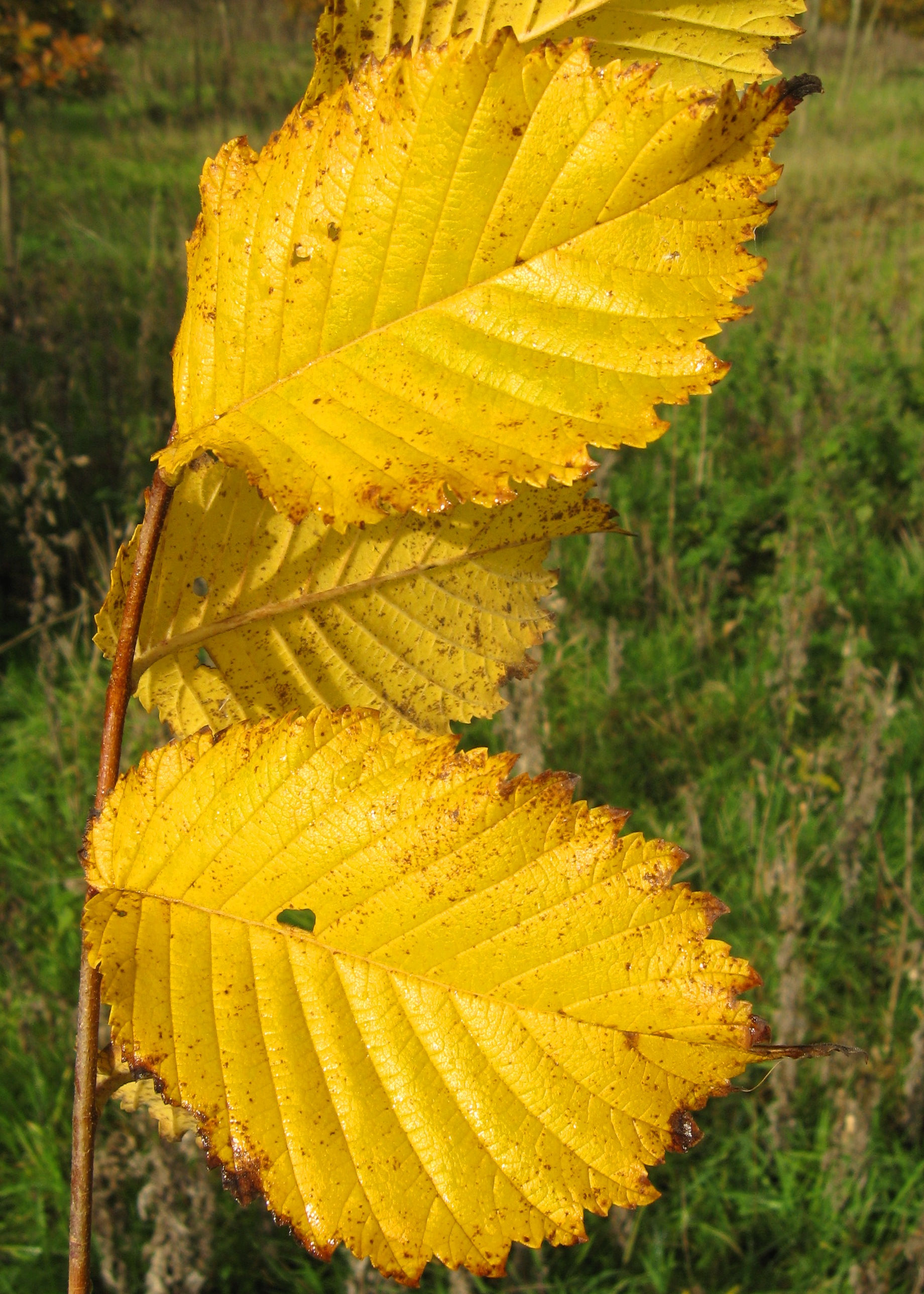 Photo of leaves of Ulmus americana 'Valley Forge', taken late October.